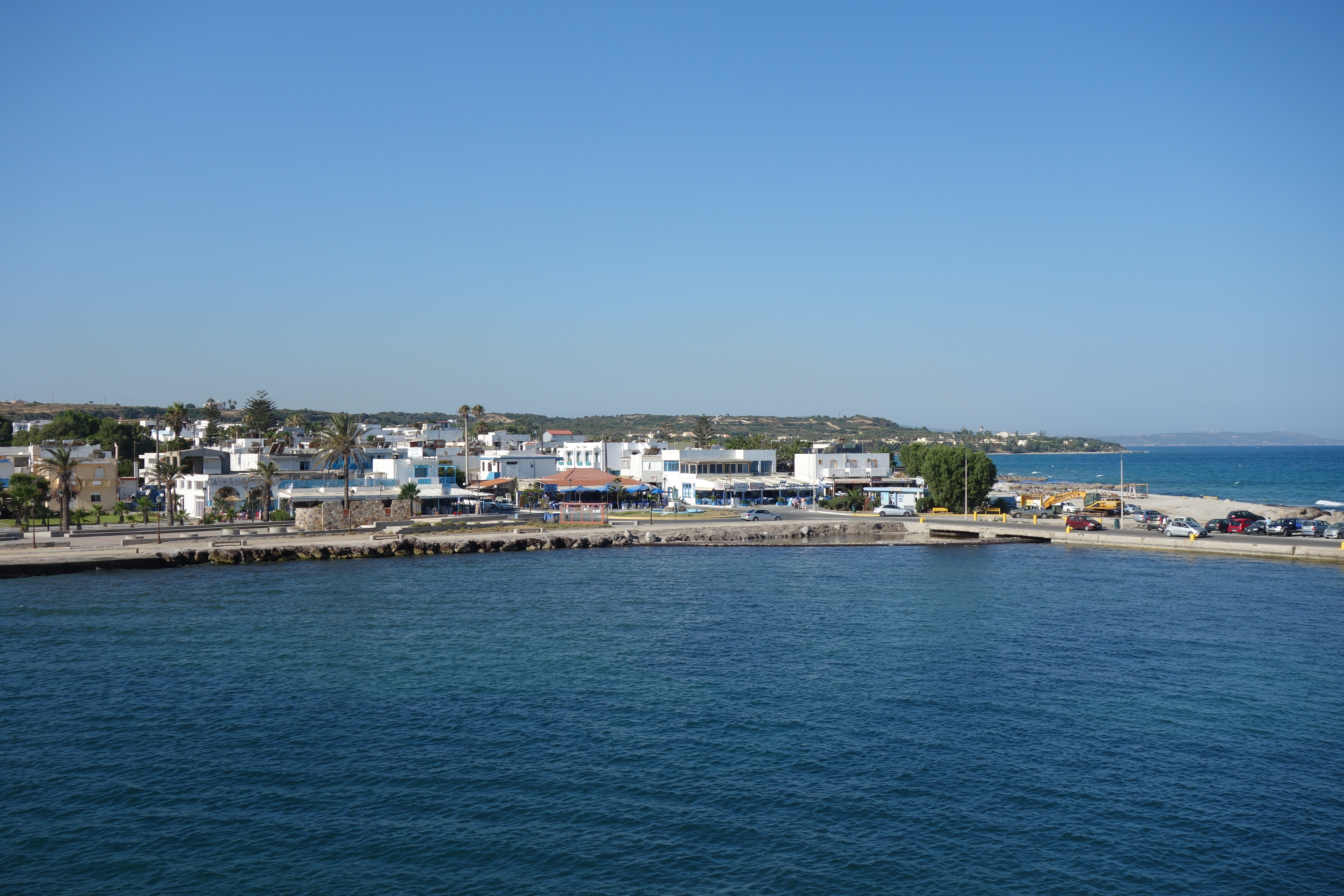 The Greek village of Mastichari seen from a ferry.